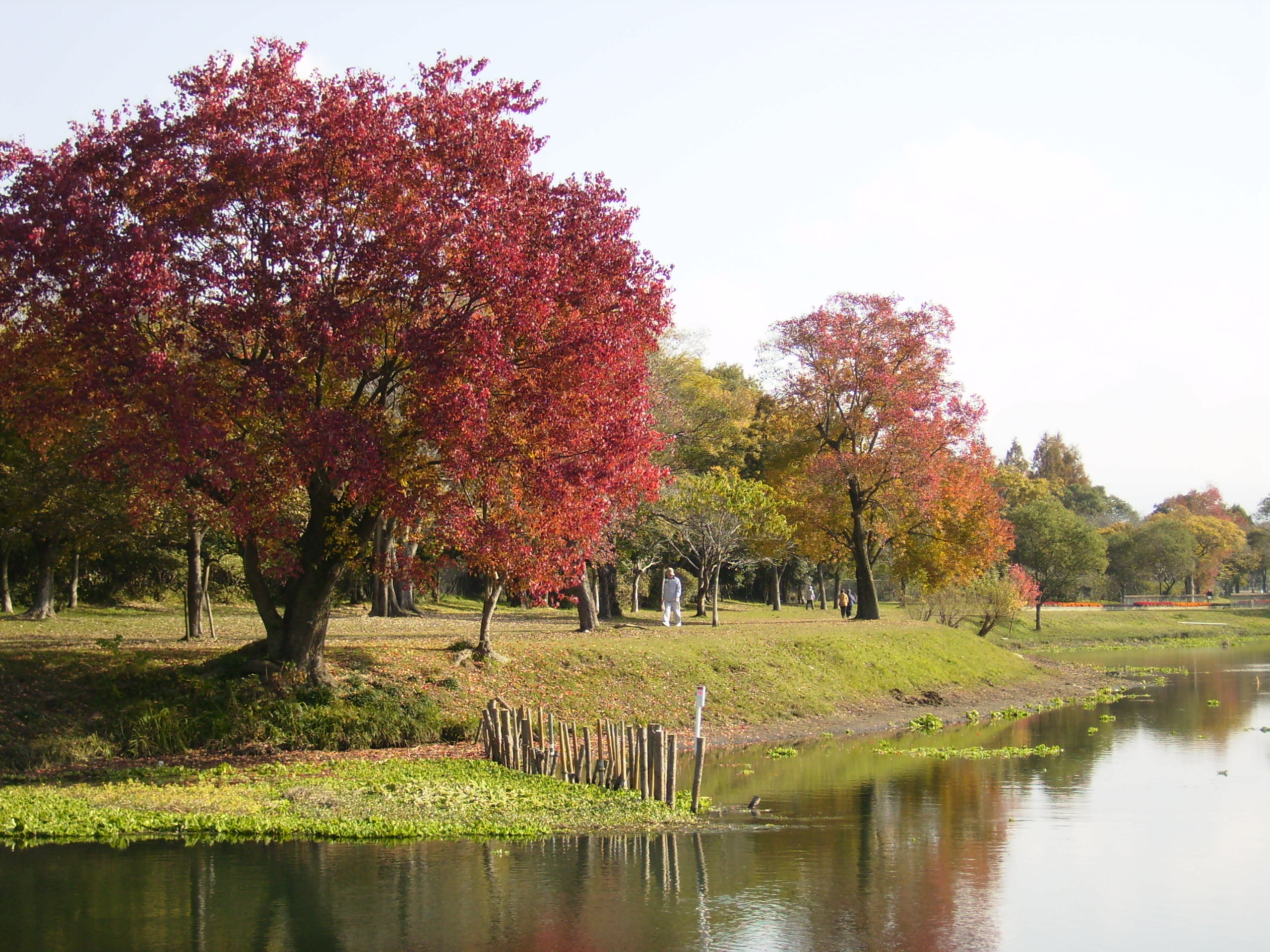 Suizenji Ezuko Park in Kumamoto City, Japan